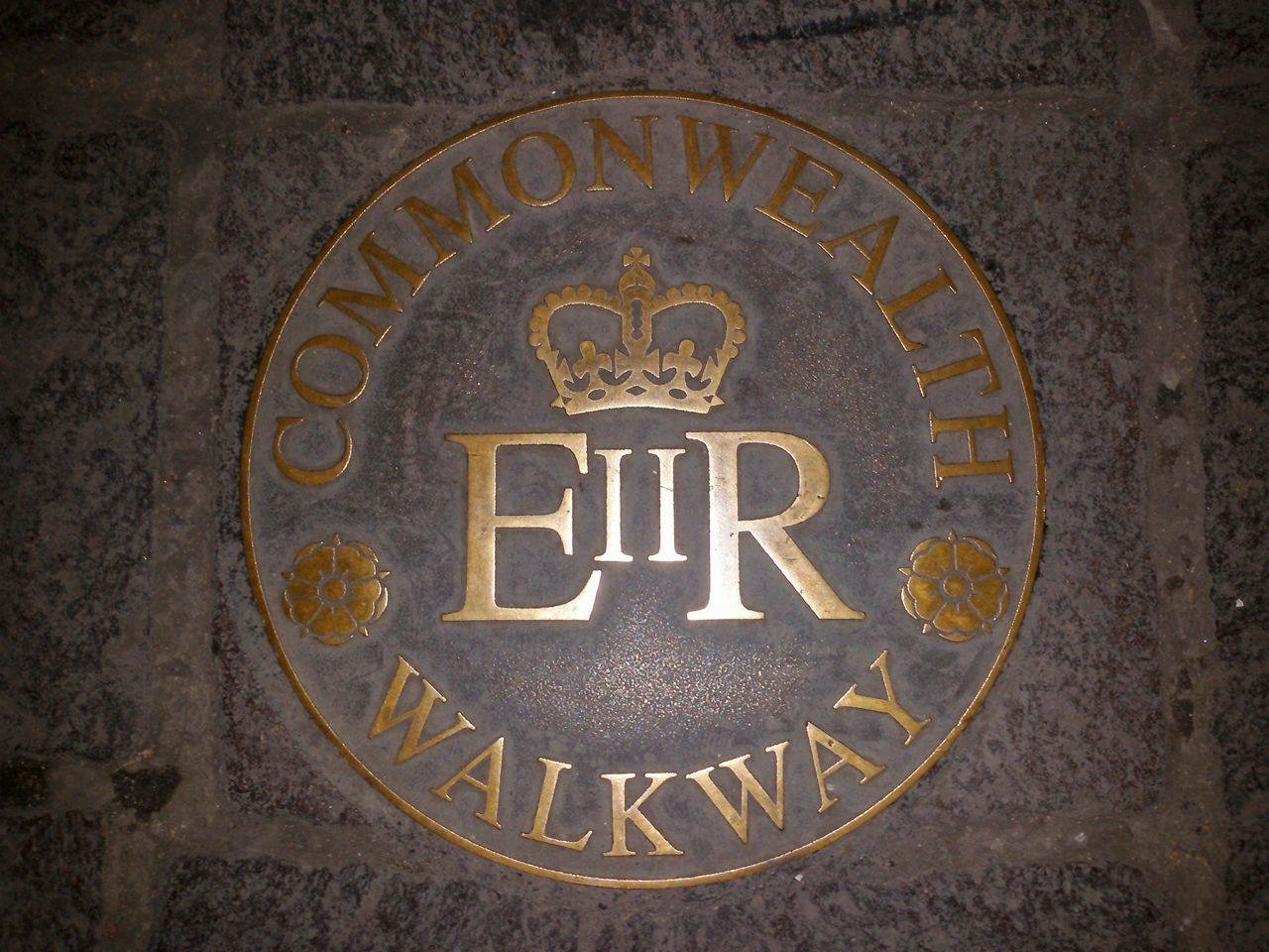 Commonwealth Walkway tile/plaque, Valletta